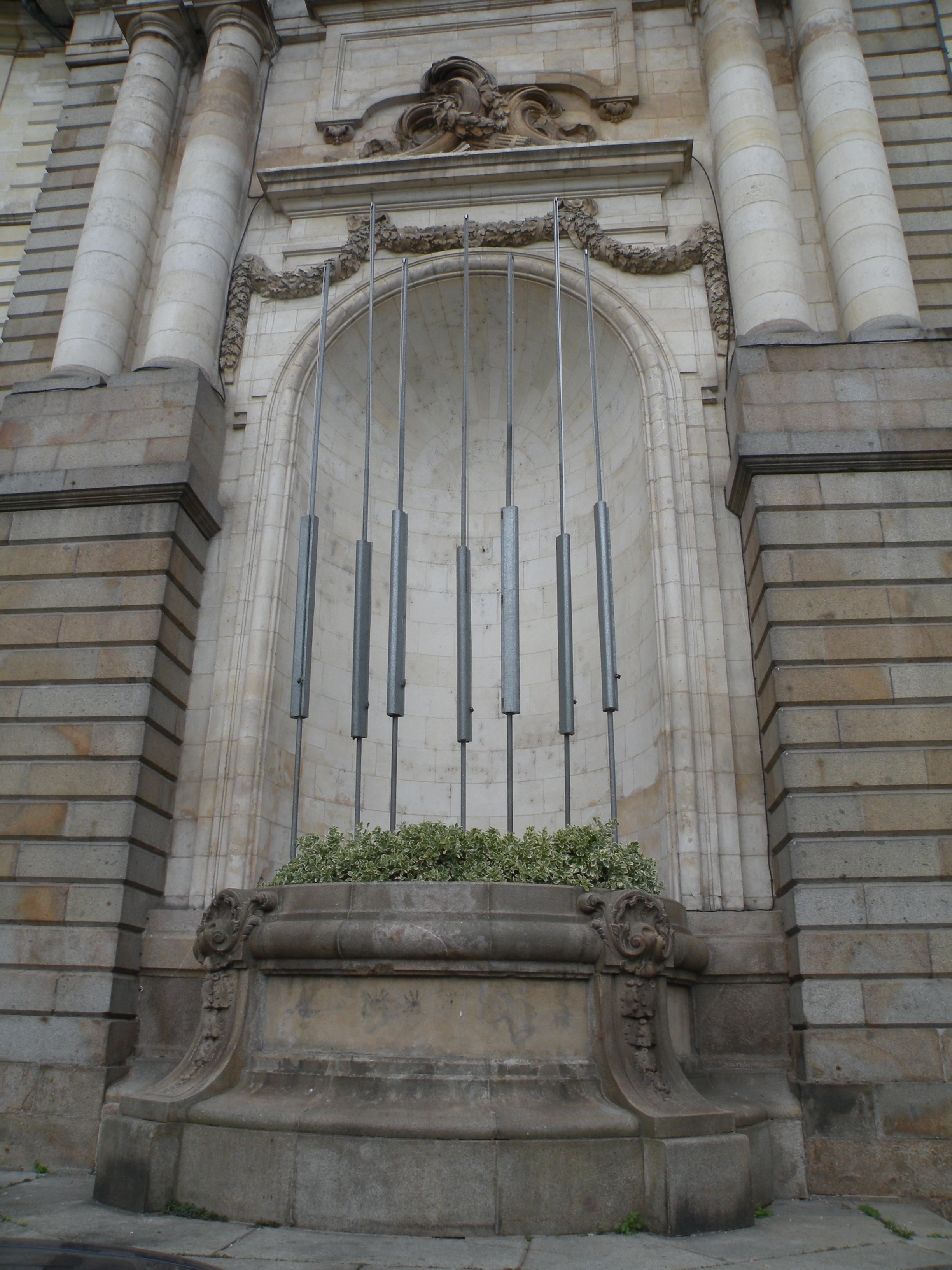 Niche of the town hall of Rennes.